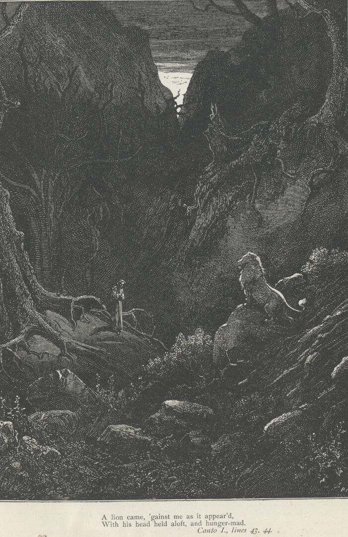 Illustration by Gustave Doré for Dante's Inferno. The caption text is from Inferno, Canto I, lines 43--44 of Rev H. F. Cary, M.A.'s translation in the Cassell and Company 1892 edition: A lion came, 'gainst me as it appear'd, With his head held aloft, and hunger-mad Reference